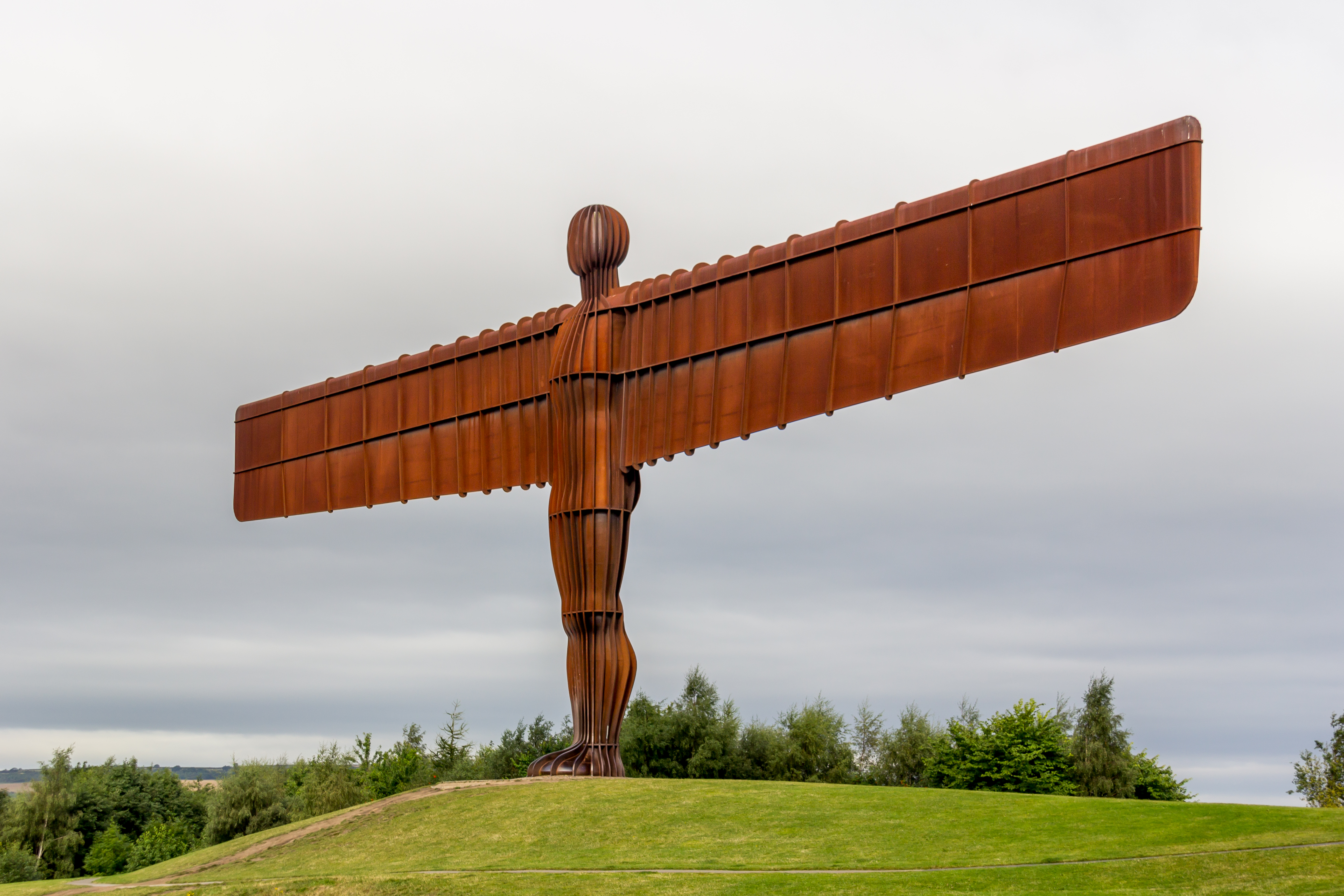 The Angel of the North, Gateshead, United Kingdom.